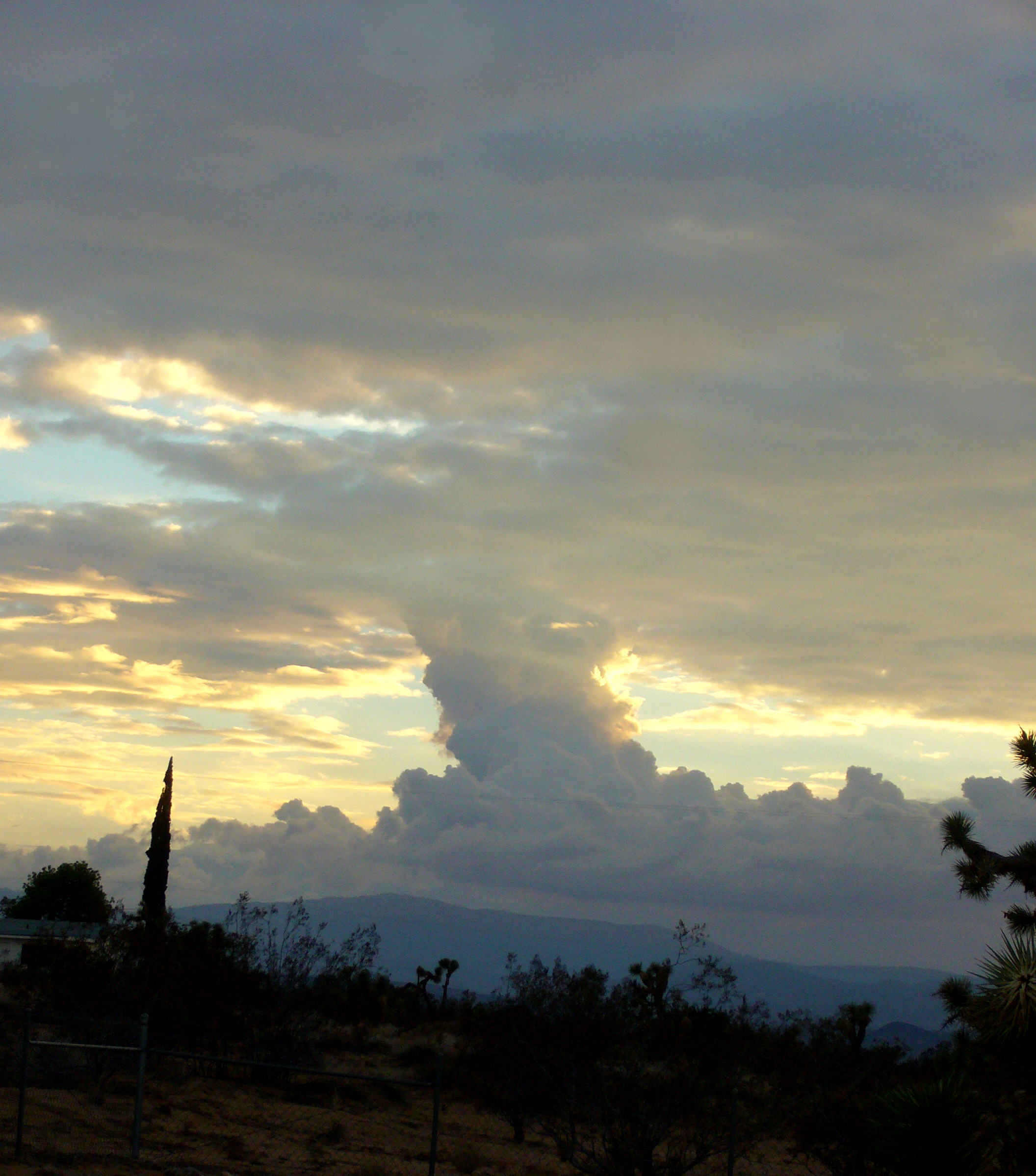 Towering Vertical Cumulus Cloud